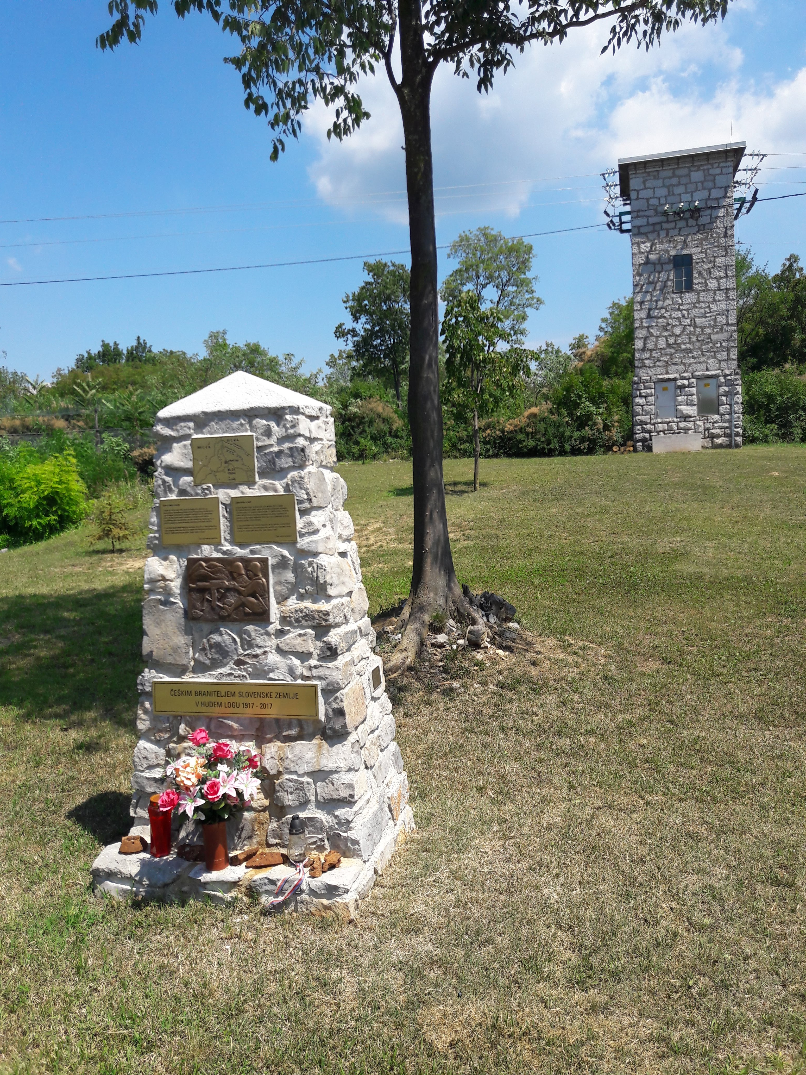 A monument to Czech soldiers in WW1 in Hudi Log